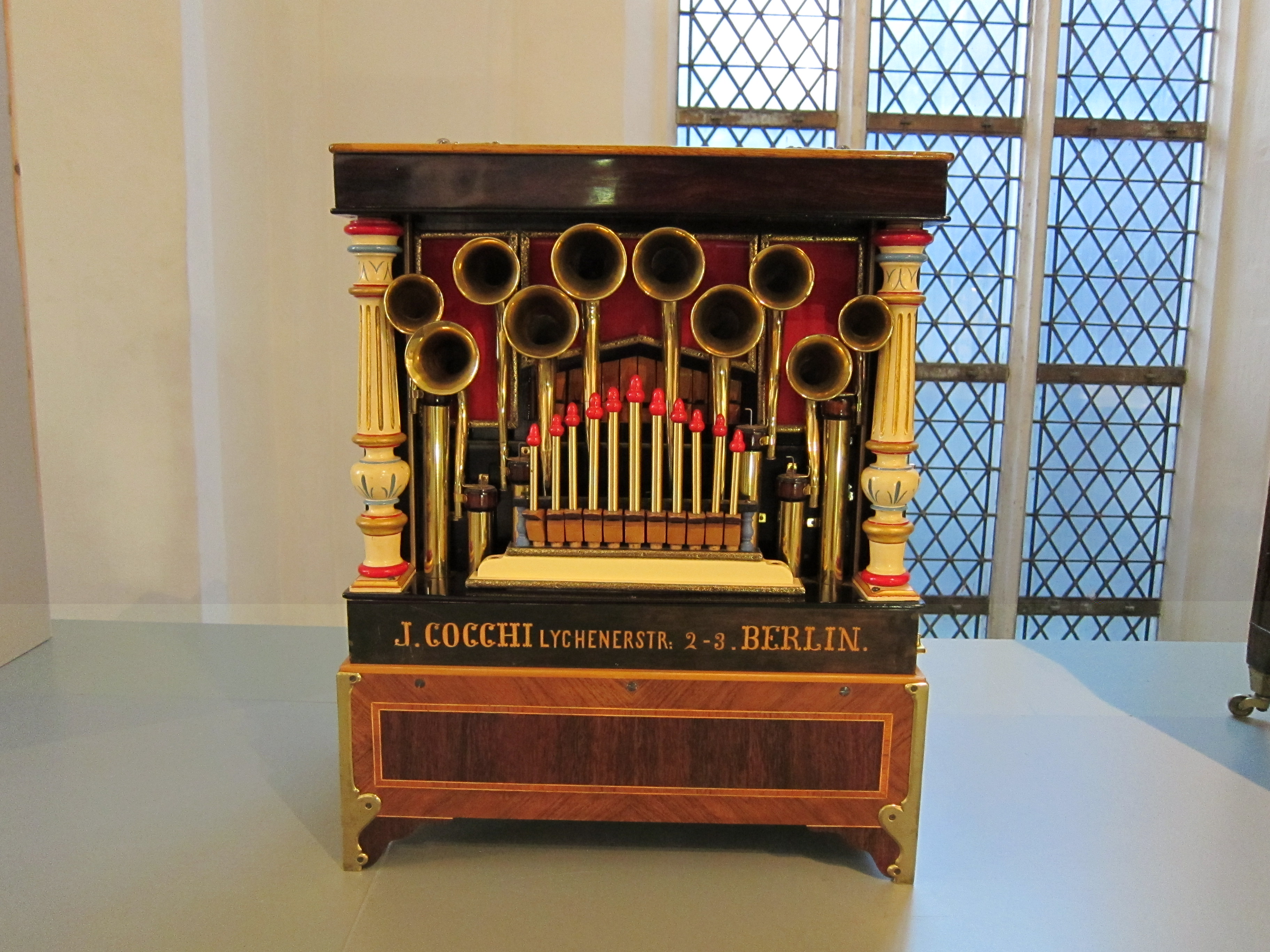 J.Cocchi, Lychenerstr, Berlin I forgot to snap a picture of the label for this device. I was probably too distracted by the horns.